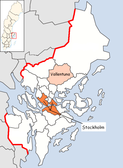 Vallentuna Municipality in Stockholm County Designed by me. Mere outlines are a PD source from